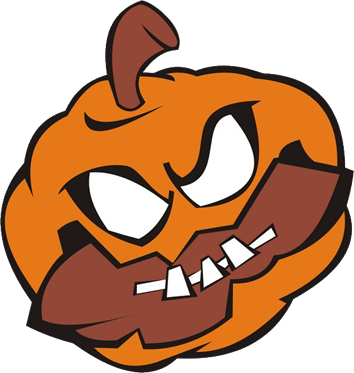 Logo Porto Alegre Pumpkins